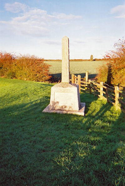 Pilgrim Fathers Memorial located in Boston, United Kingdom. Photo by Kelly Horry.